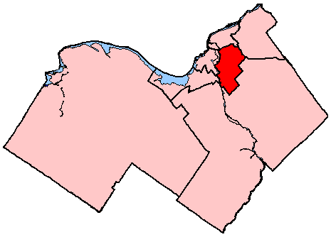 Locator map of Ottawa South, an electoral district in Ottawa, Ontario